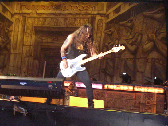 Steve Harris during the gig in Stockholm, July 16 2008.